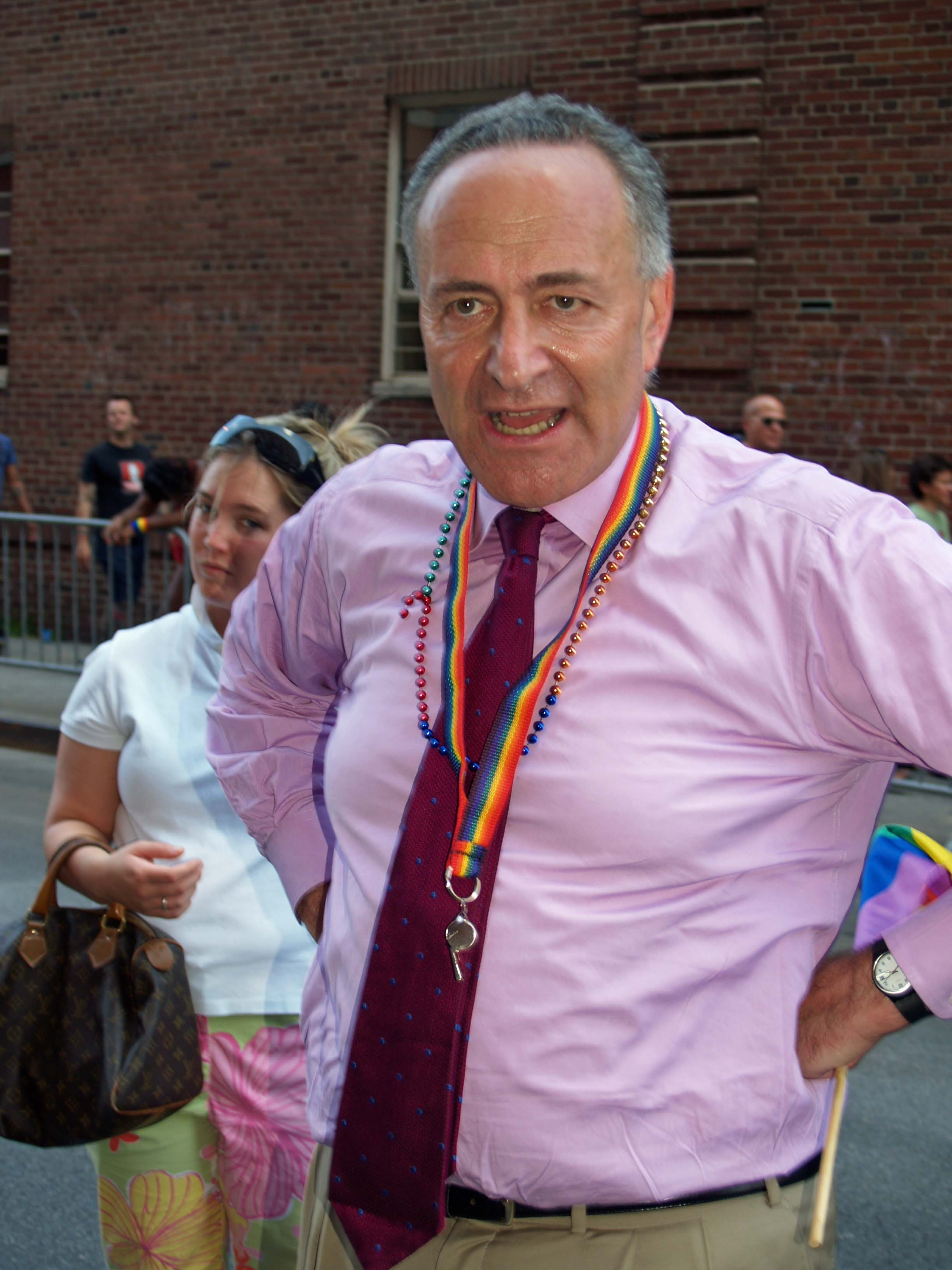 Senator Charles Schumer